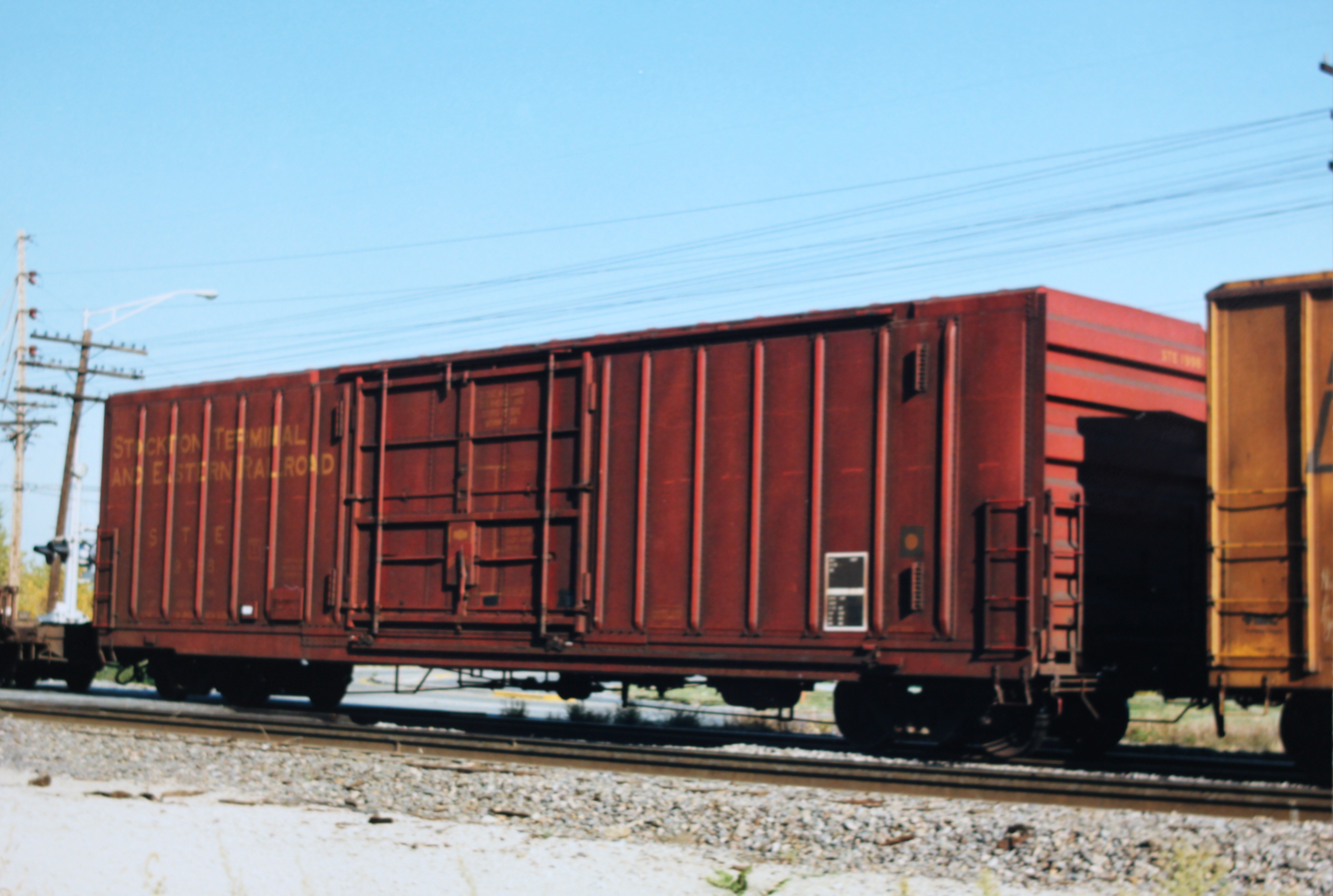 SP, Dupo, IL, Railroad rolling stock, 1989; digital copy of print. Complete indexed photo collection at .